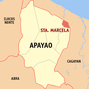 Map of Apayao showing the location of Santa Marcela